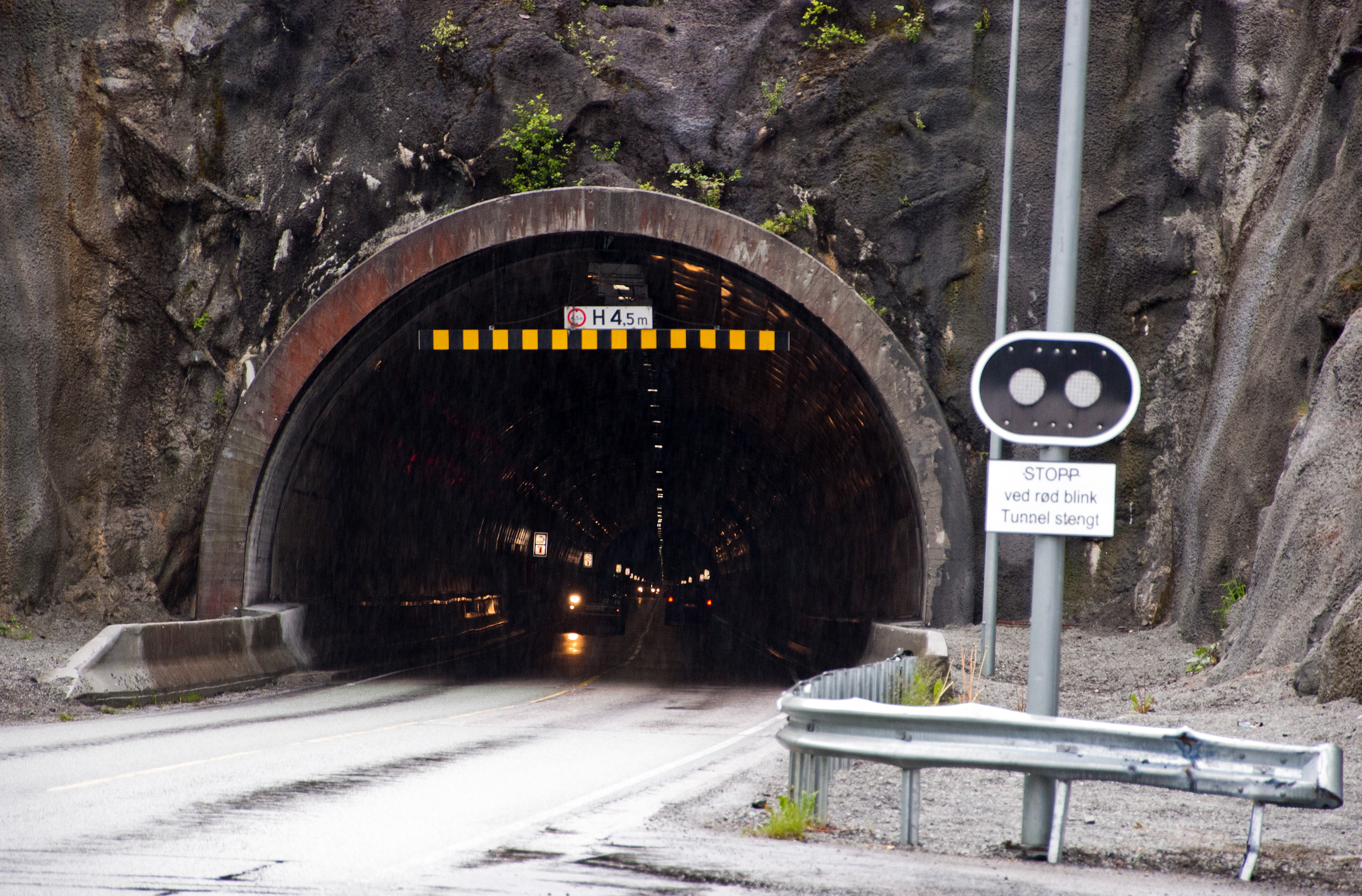 Tussen tunnel on county road 64, southeast entrance in Molde, Møre og Romsdal county, Norway.